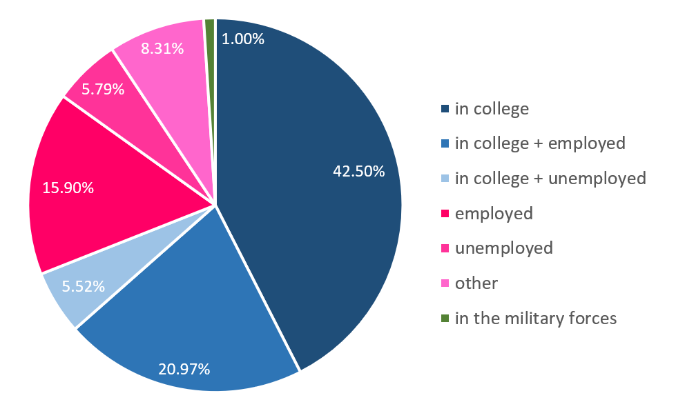 data sources